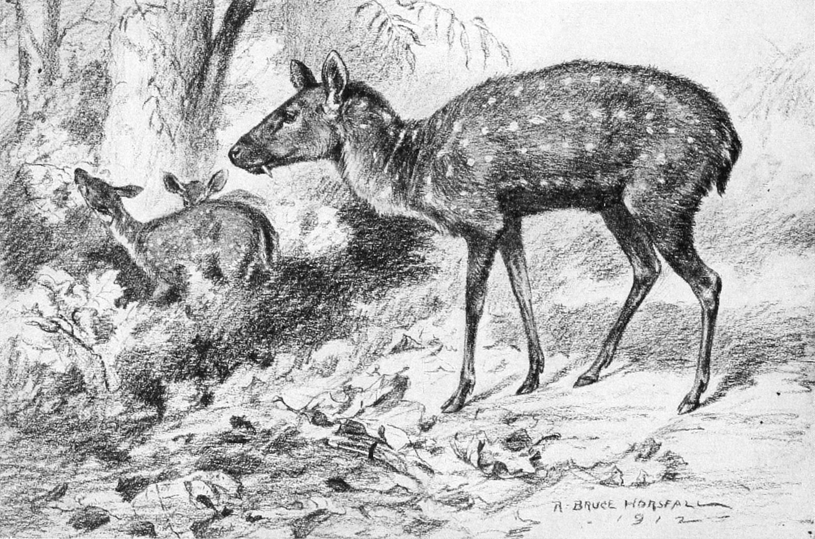 Life restoration of Pseudoblastomeryx (formerly Blastomeryx) advena from W.B. Scott's A History of Land Mammals in the Western Hemisphere. New York: The Macmillan Company.